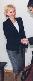 Estonian politician Kristiina Ojuland, former Foreign Minister of Estonia.